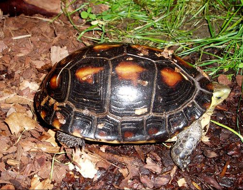 Torsten Blanck